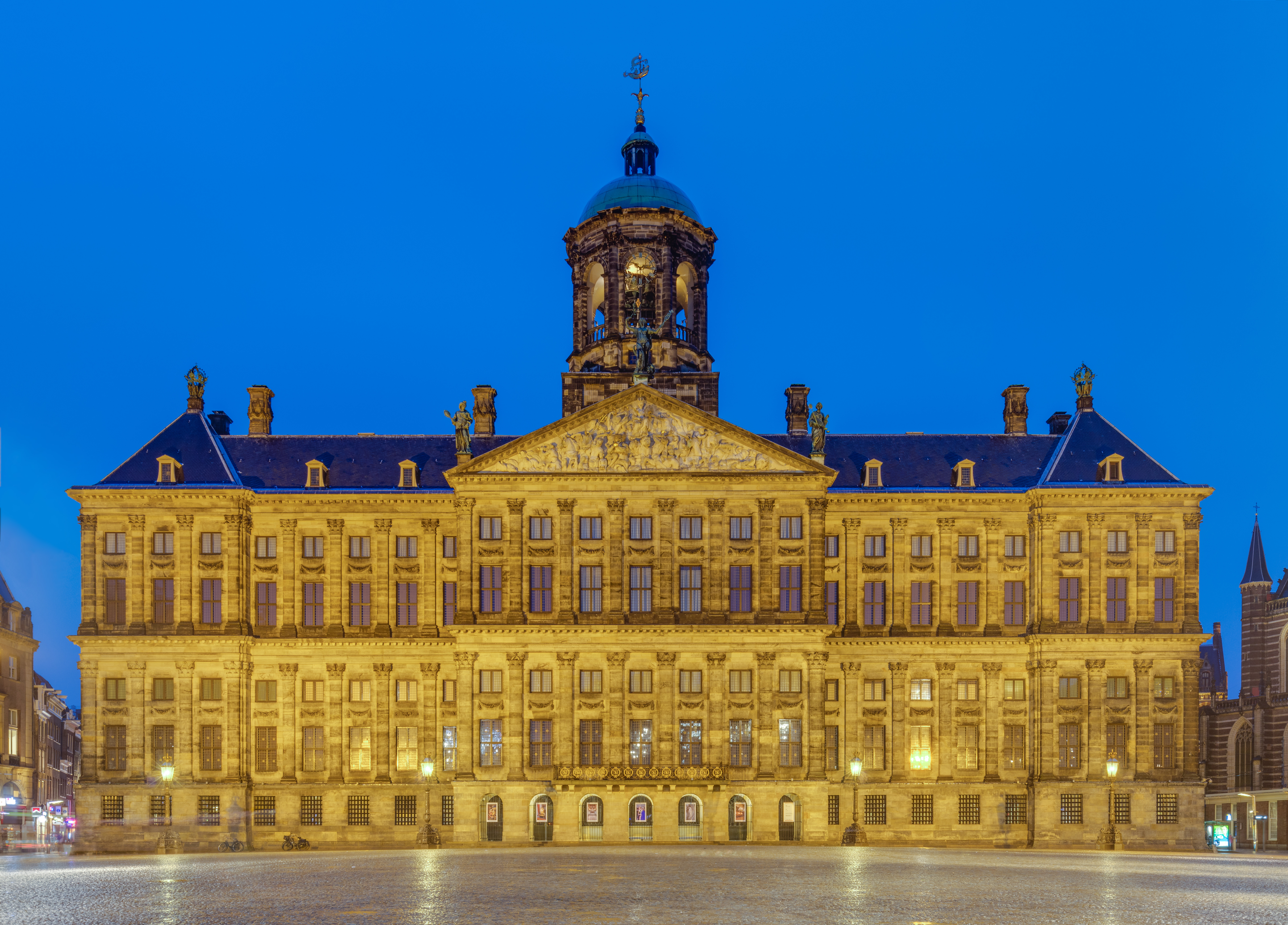 Blue hour view of front of the Royal Palace, Amsterdam, Netherlands. The palace was built as a city hall during the Dutch Golden Age and opened in 1655. The building became the royal palace of King Louis Napoleon and later of the Dutch Royal House. Currently it is one of the 3 palaces at the disposal of the monarch.